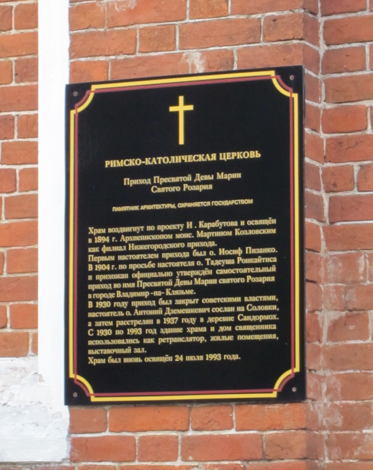 Our Lady of the Rosary Roman Catholic Church, Vladimir, Russia